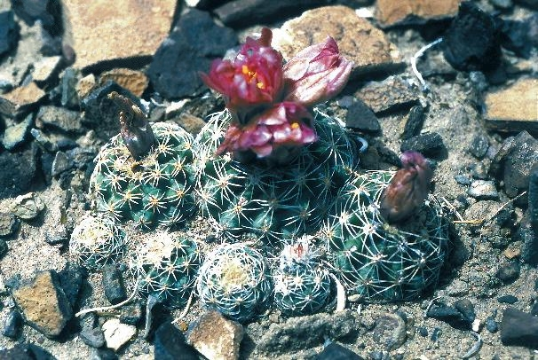 Sclerocactus wetlandicus